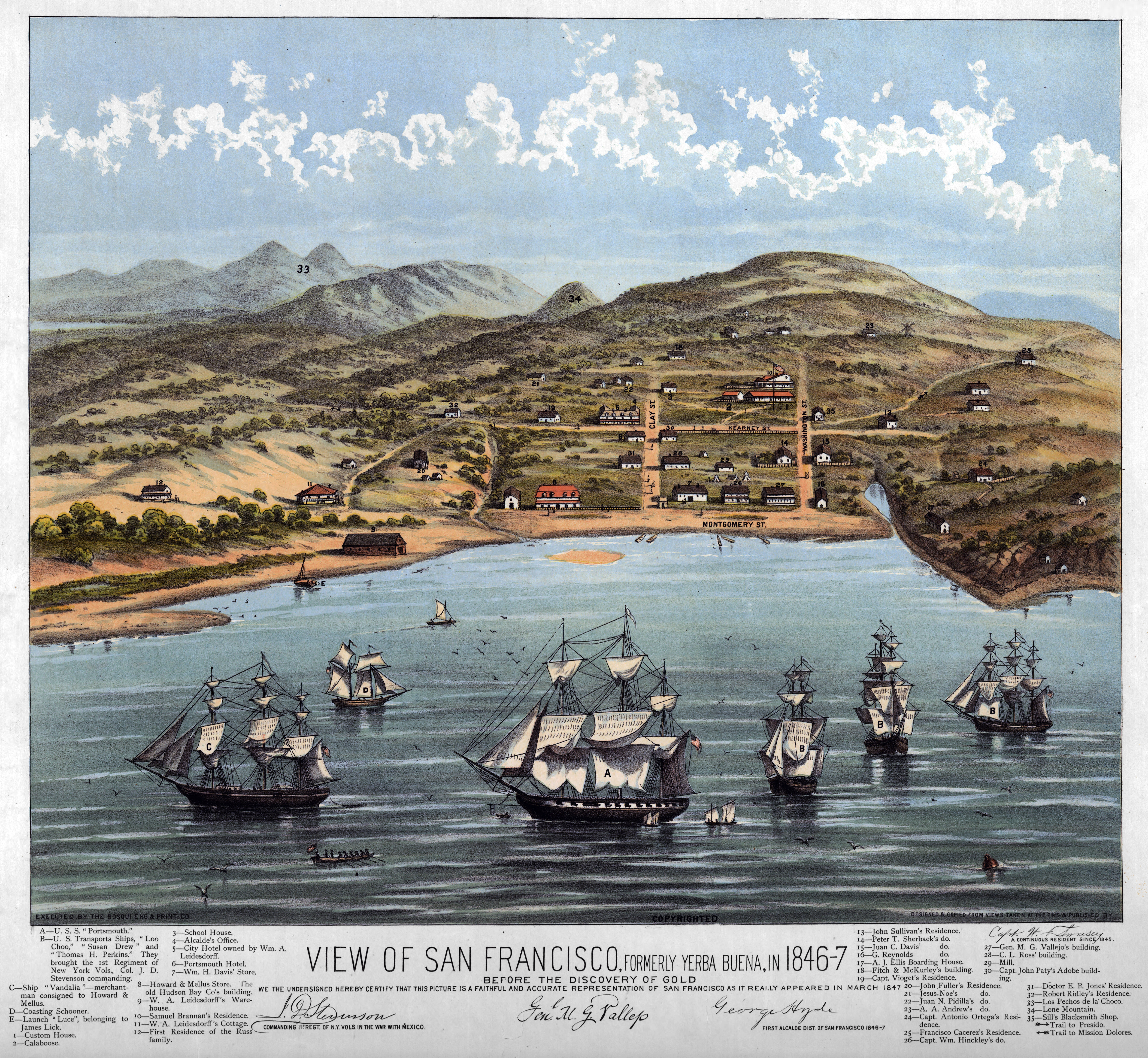 Birdseye map of San Francisco in 1847.